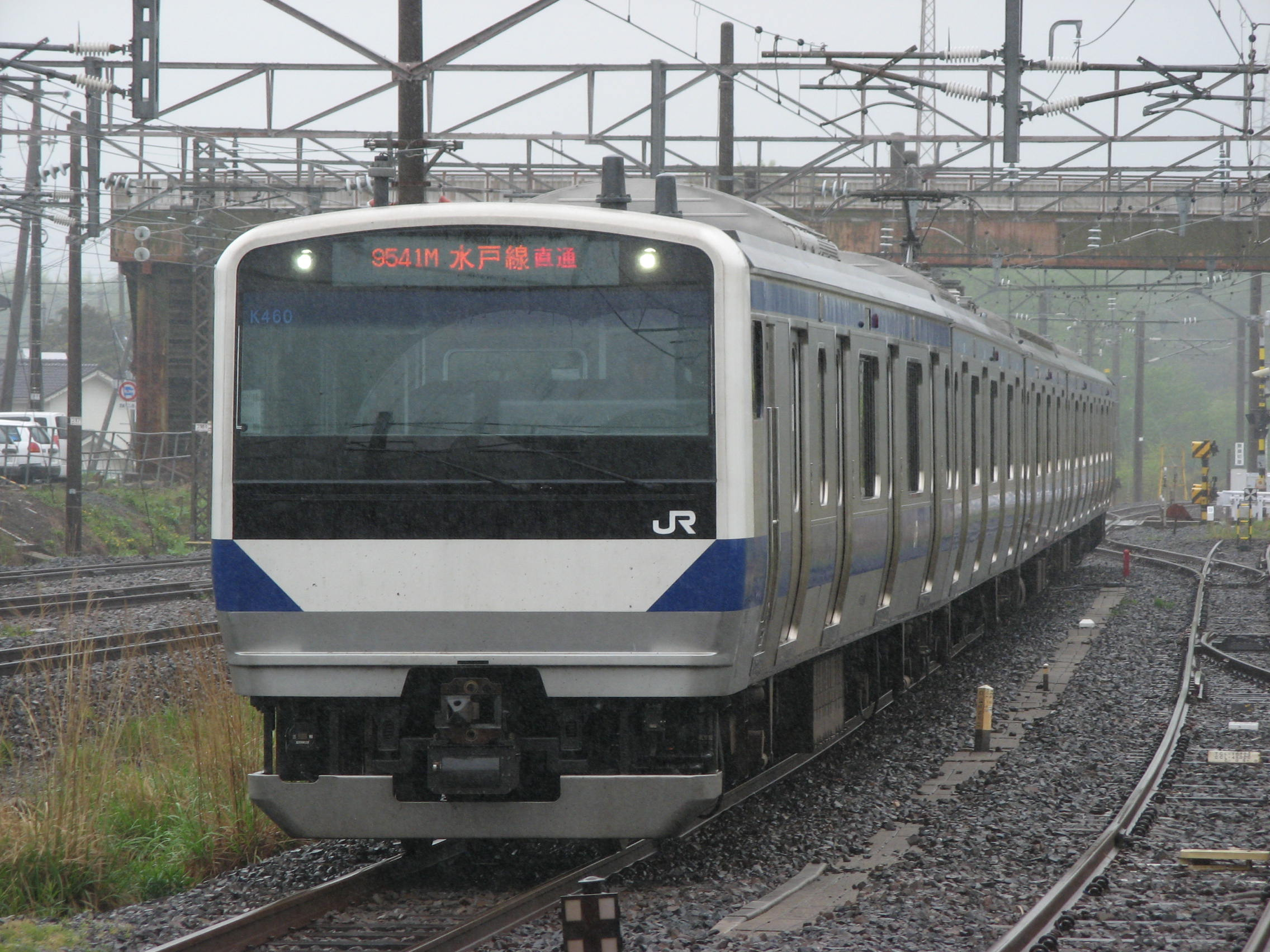 5 car train K460 of JR East E531 series in Mito Line